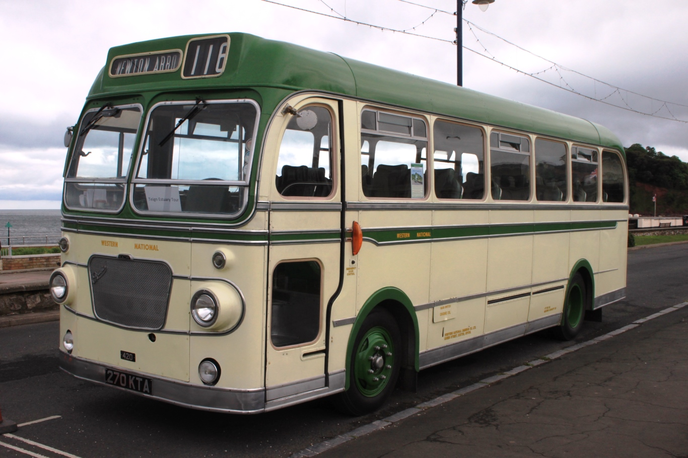 Western National 420, a Bristol SUL registered 270KTA, visit's the Teignmouth Transport Heritage Day.